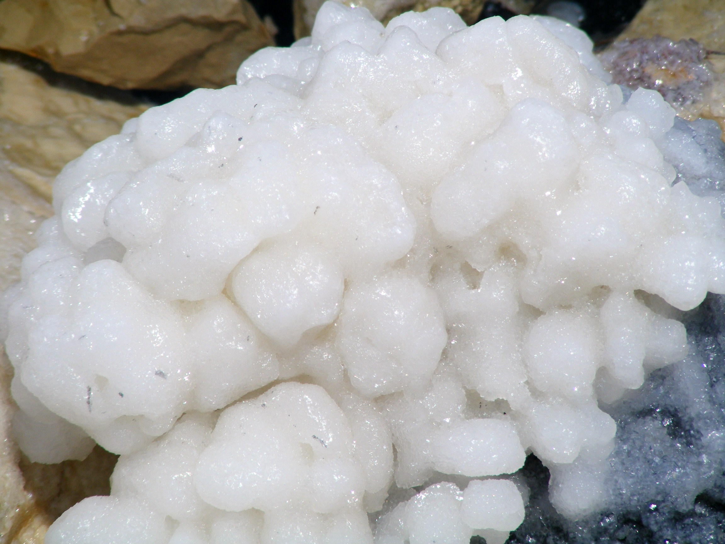 Beautiful salt deposit at Dead Sea